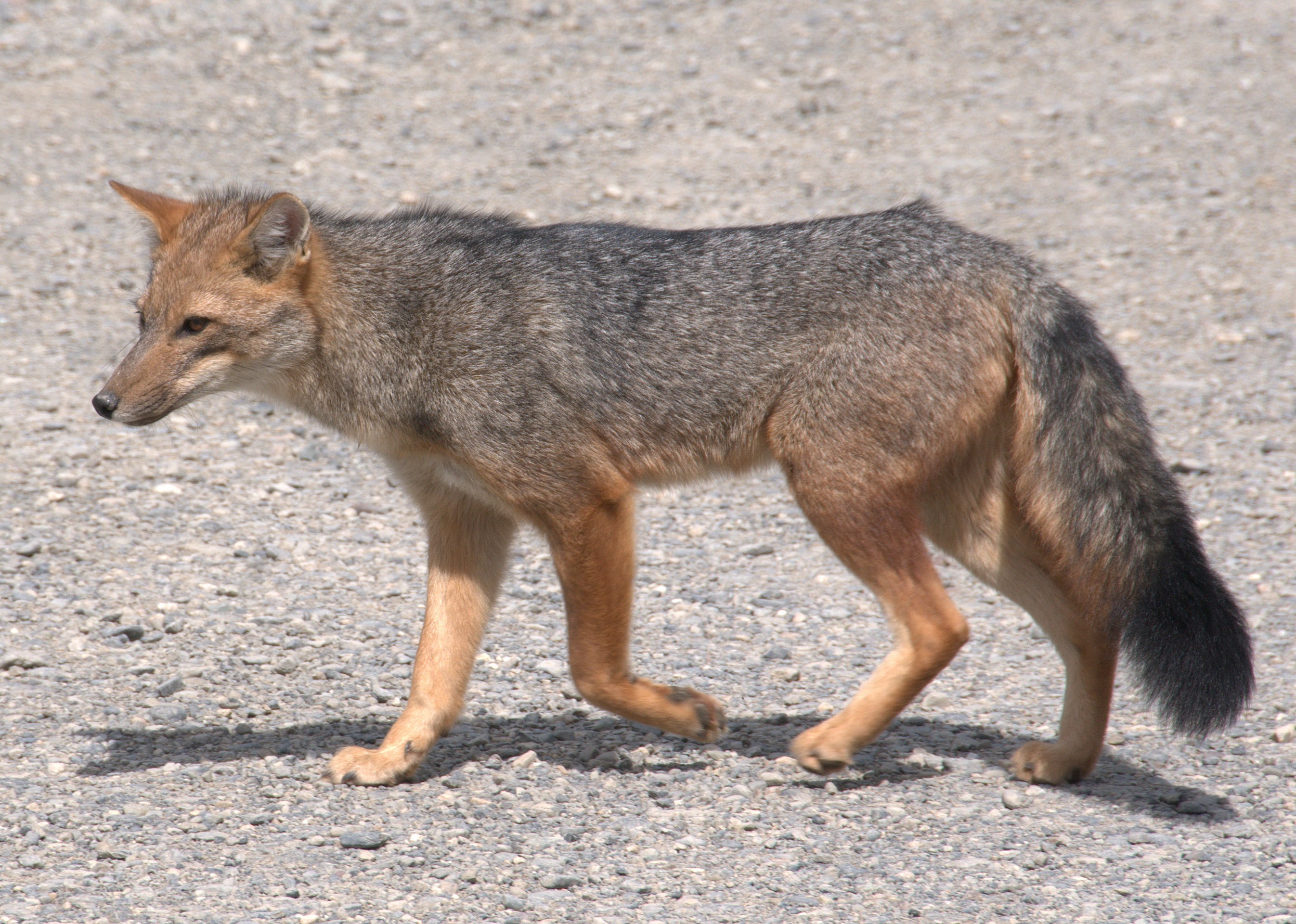 Fox near caves outside Puerto Natales, Patagonia, Chile.